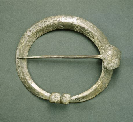 A brooch typical to southwestern Finland approximately from the years 1150-1300. Found from Sortavala, Karelia.